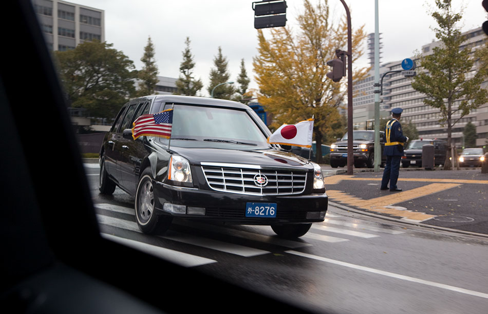 President Barack Obama's limousine makes its way through the streets of Tokyo, Japan, Nov. 14, 2009.